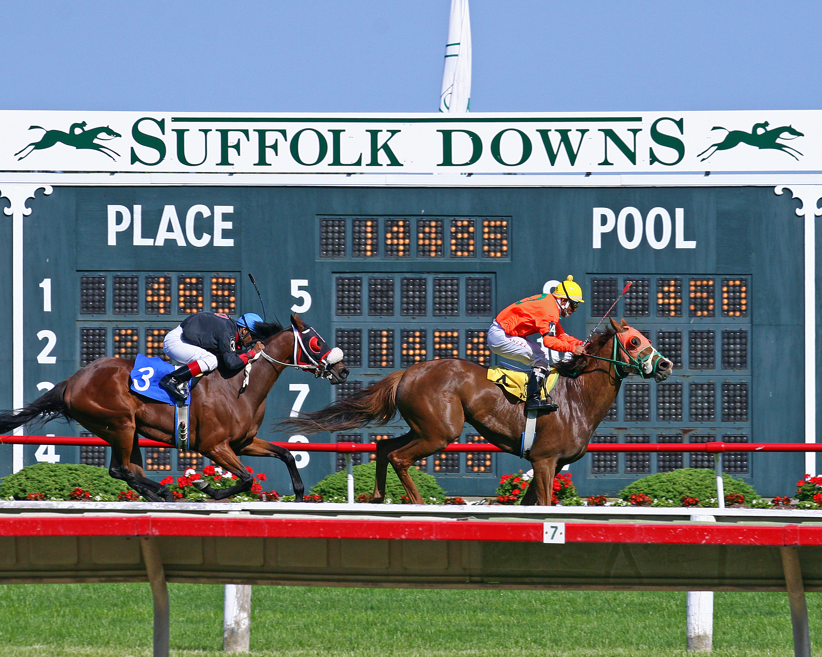 Horse racing results board for Suffolk Downns track, East Boston, Massachusetts USA.